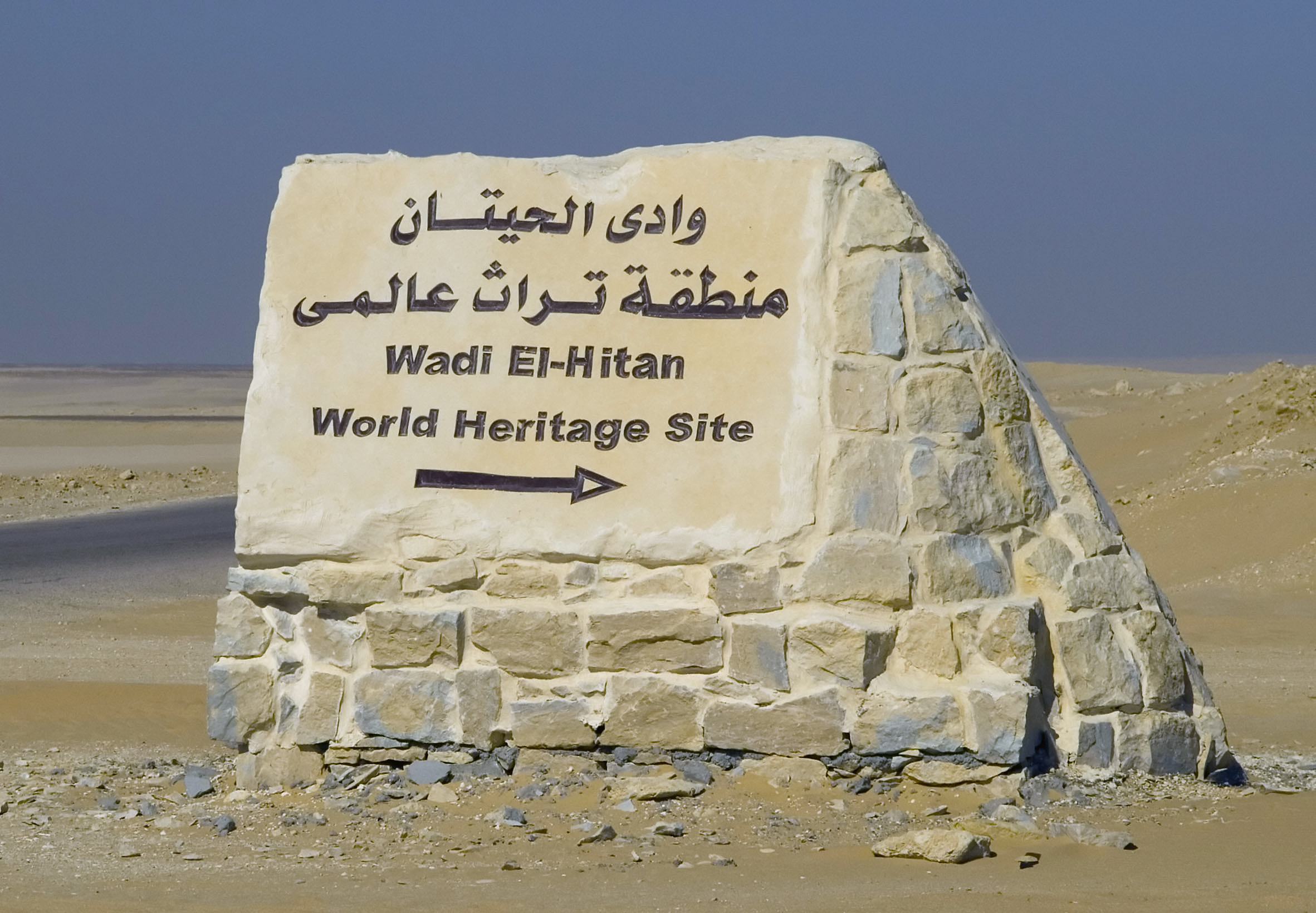 Wadi Al-Hitan is a very important fossil site that firmly establishes the fossil record of whale evolution from land mammals, one of Darwin's major assertions in The Origin of Species. The wadi hosts skeletons of families of archaic whales in their original geological and geographic setting of the shallow nutrient-rich bay of an early sea of some 30-40 million years ago, in what is now central Egypt. There is no other place in the world yielding archaic whale fossils of such quality in such abundance and concentration -- over 400 cetacean skeletons have been discovered, the most important finds coming between 1985-1995. Many of the sirenians and cetaceans are preserved as virtually complete articulated skeletons which, uniquely, preserve reduced hind limbs, making them intermediate between earlier land mammals and later modern whales. In addition to the whale fossils, numerous other fossils of plant and animal life provide a rich picture of the ecology of the Tethyan Ocean during Eocene time, enabling interpretation of how animals then lived and how they were related to each other. These fossils are the subject of continuing study and are of iconic value for the study of evolutionary transition, and make the site vitally important as a niche in Earth's natural history.